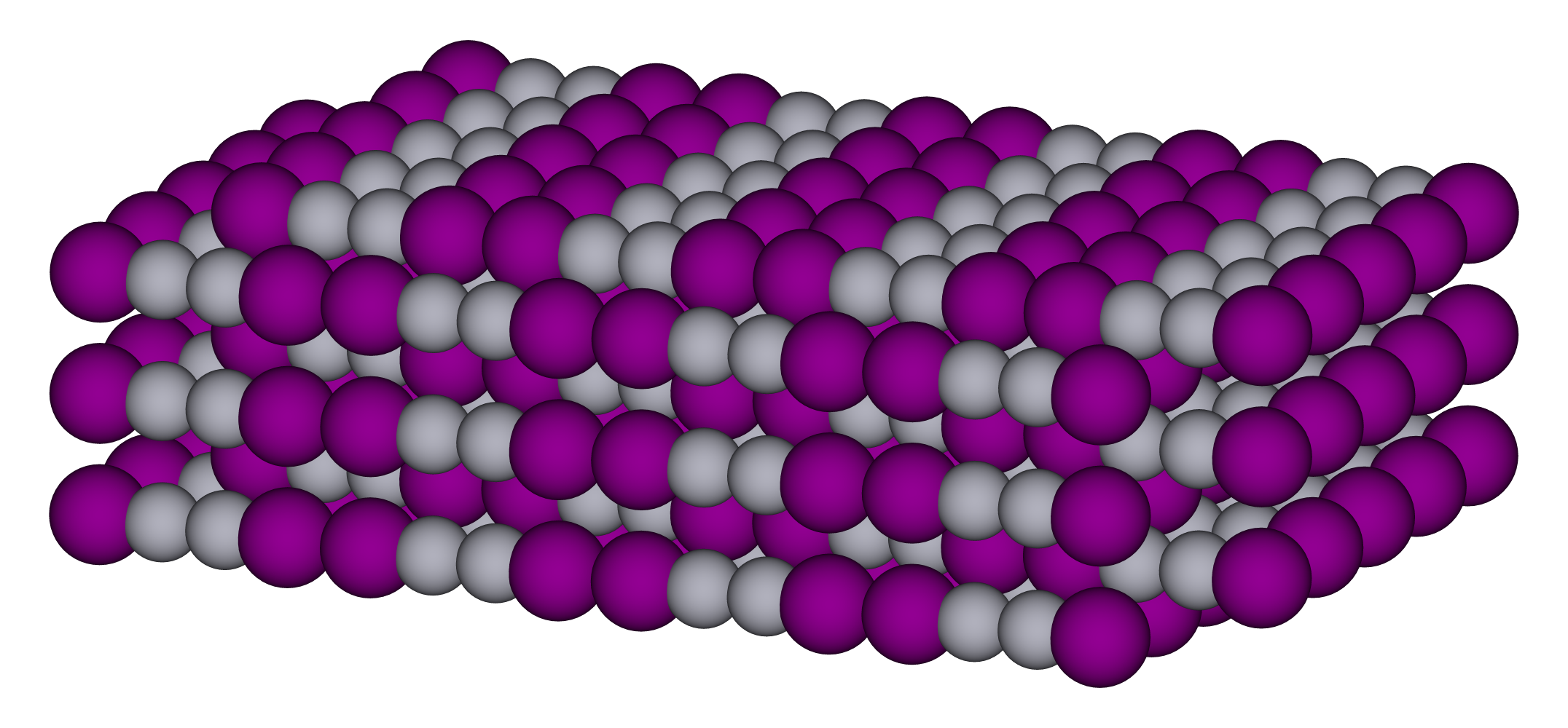 Space-filling model of part of the crystal structure of Mercury(I) iodide, Hg2I2. Structural data from the CrystalMaker 8.1 structure library, originally from Wyckoff R W G Crystal Structures 1 (1963) 85-237.